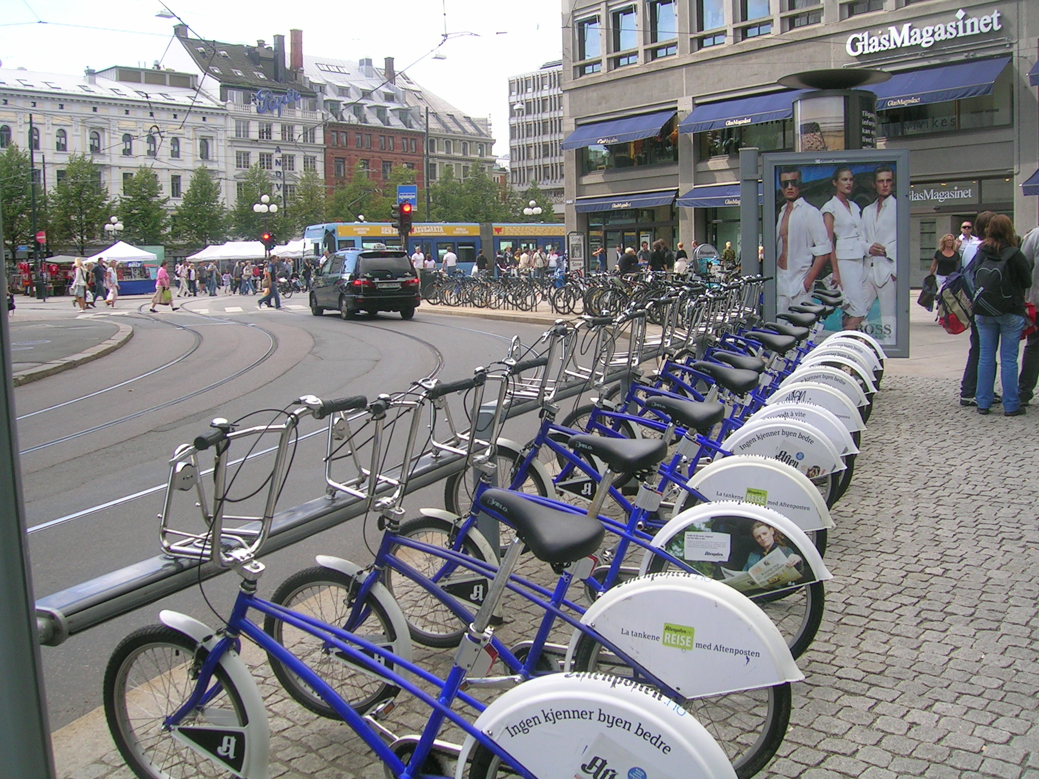 Bicycle stand, Oslo